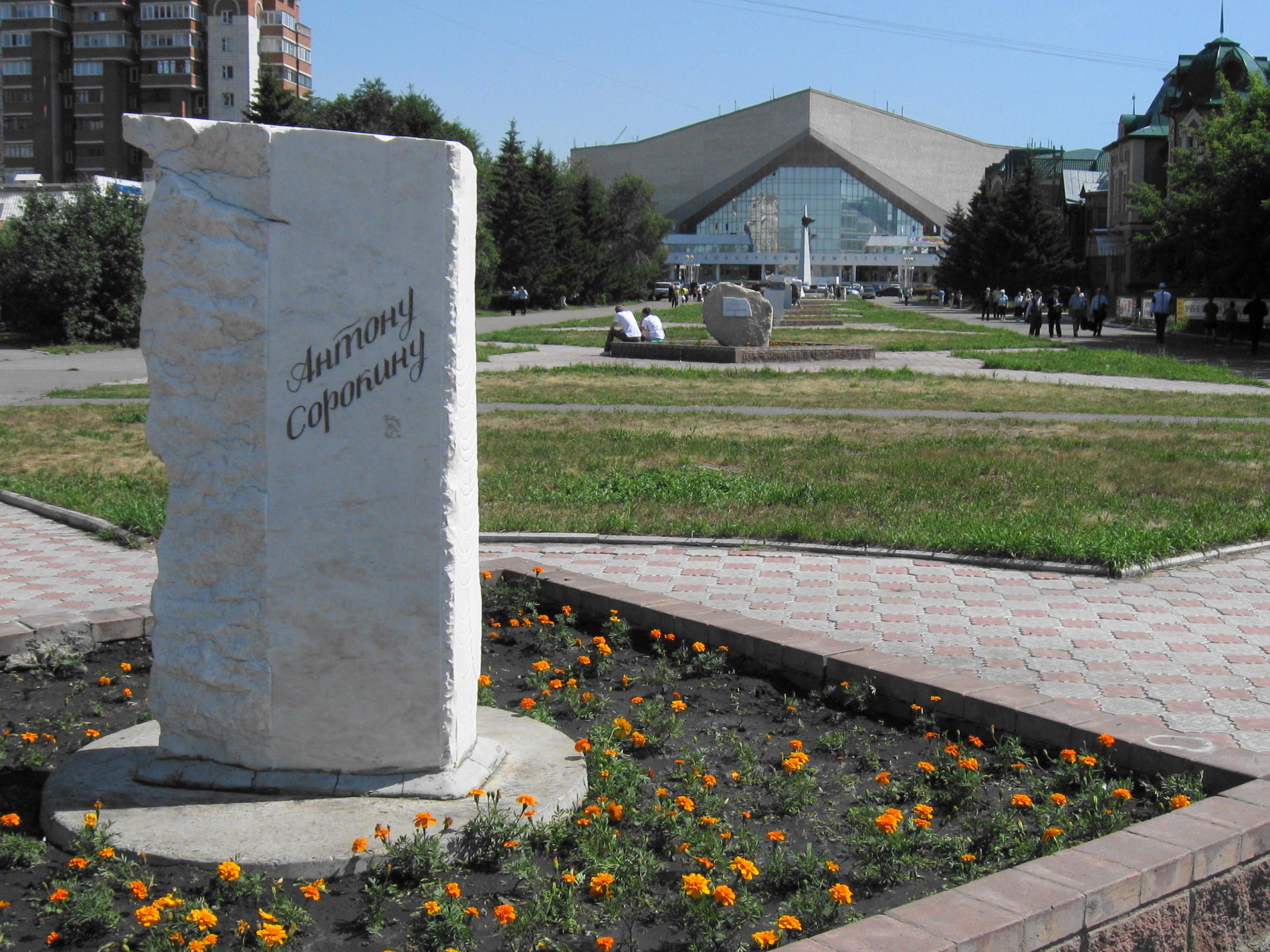 Memorial stone to writer Anton Sorokin (Omsk, Russia)